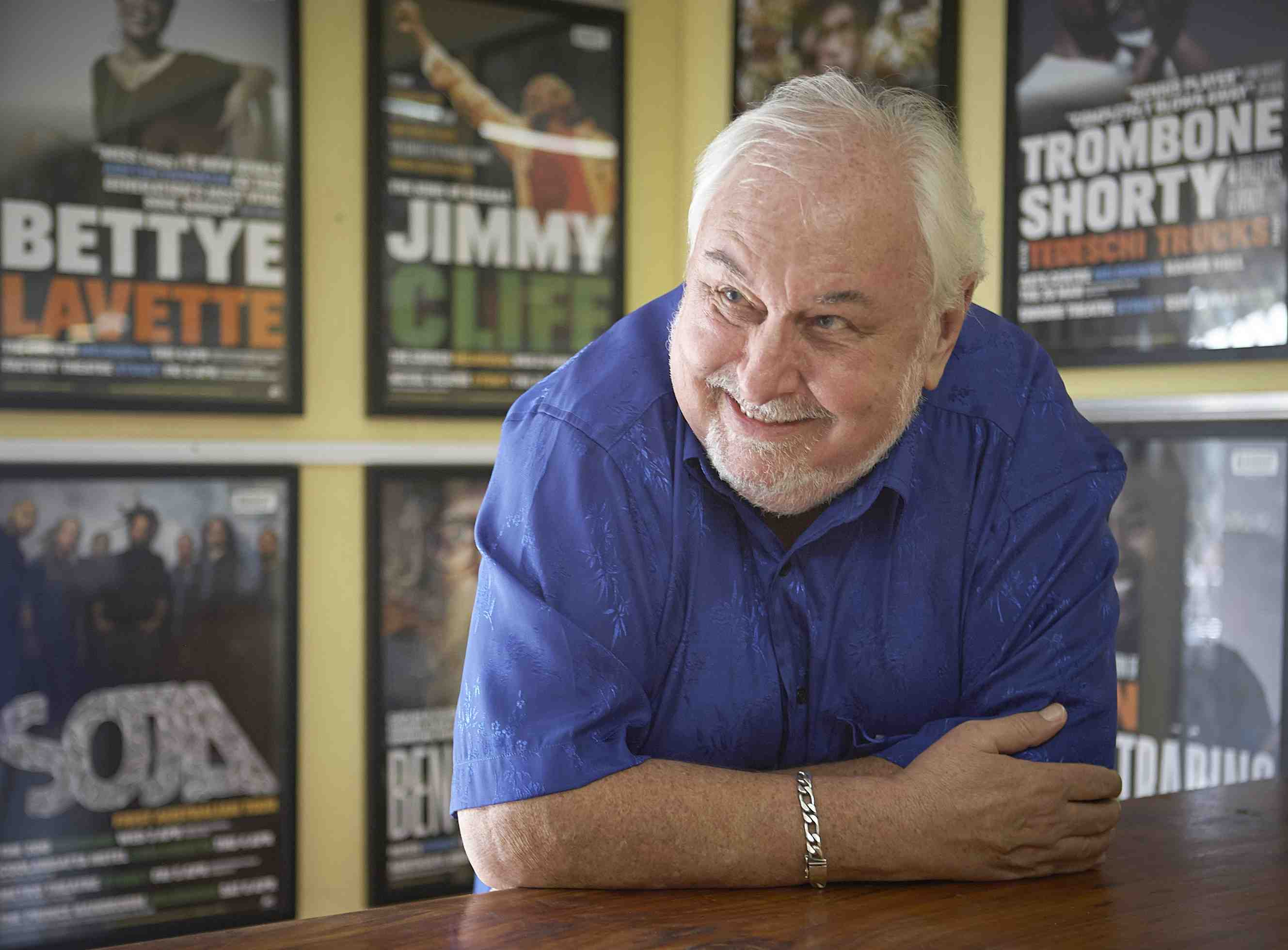 Peter Noble by Dane Beesley